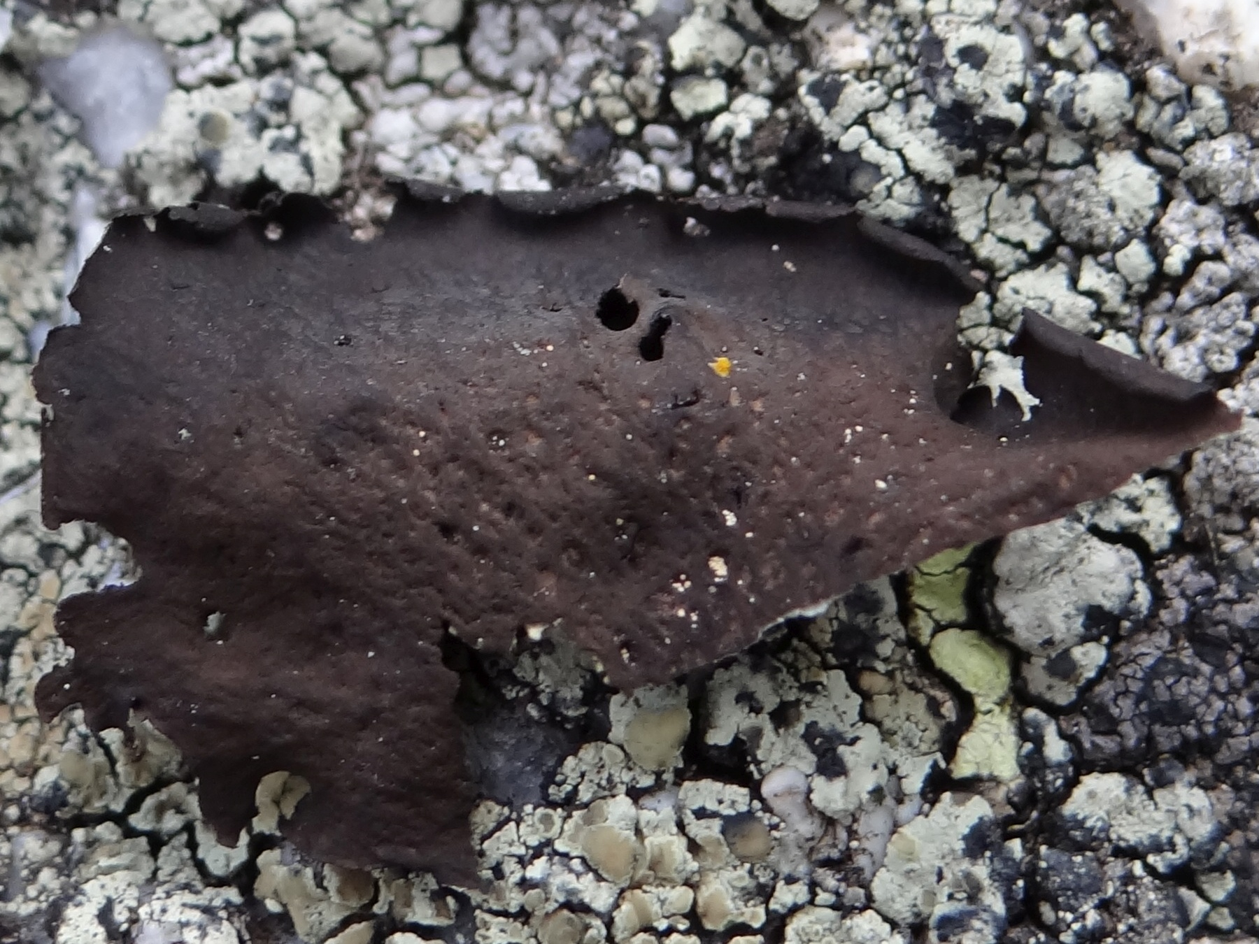 Umbilicaria polyphylla (lower side). Location: Slovakia, Nízke Tatry, Tanečnica